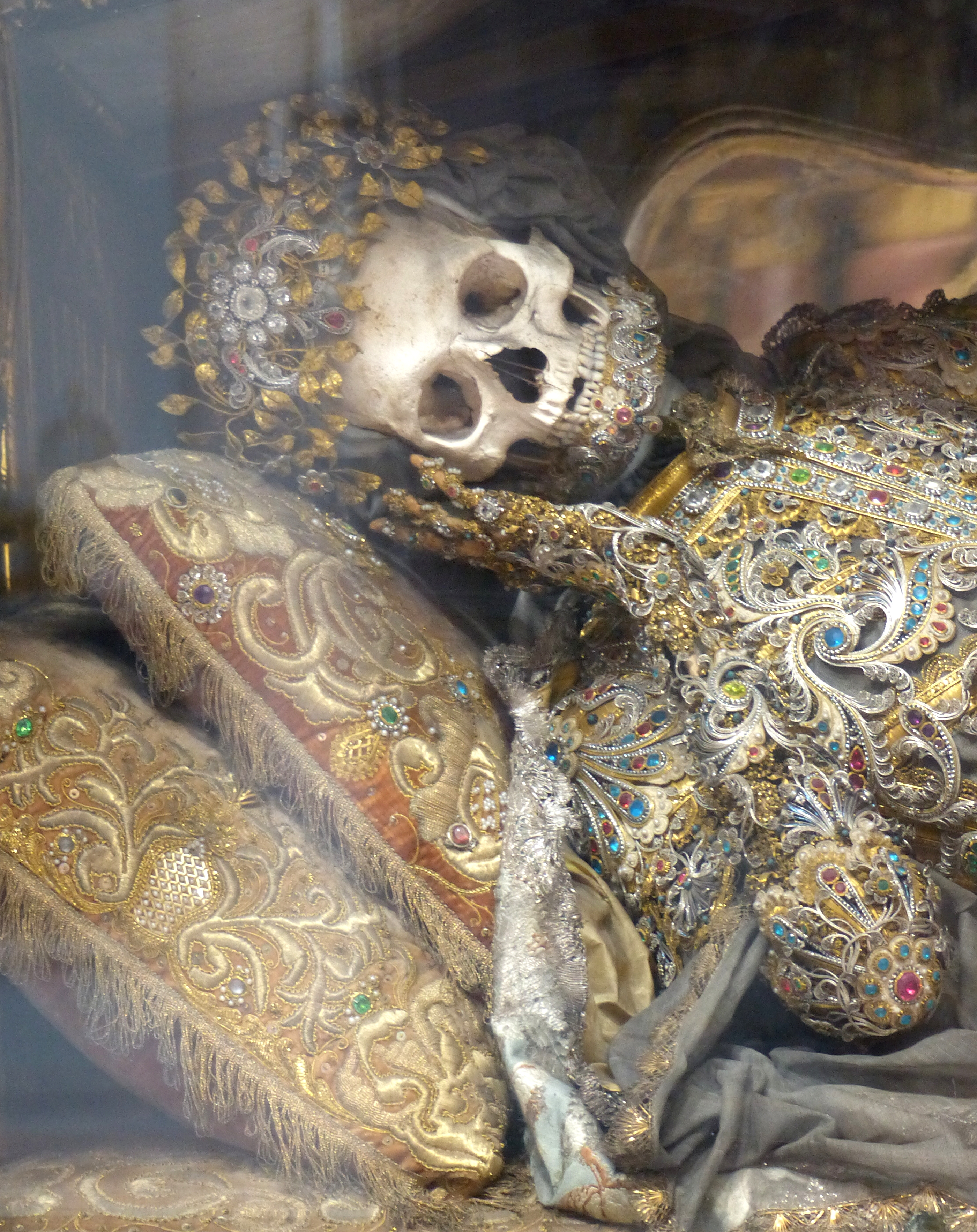 Waldsassen ( Upper Palatinate ). Abbey church: Catacomb saint - Saint Maximinus.This is a photograph of an architectural monument.